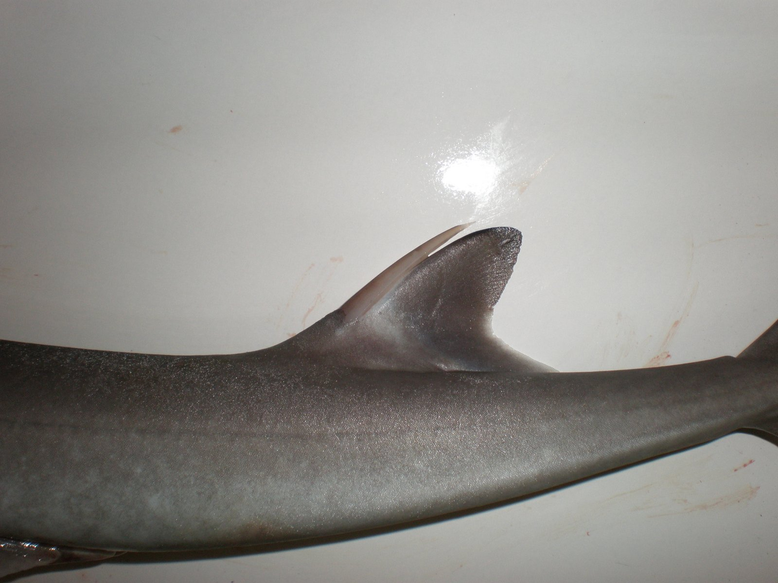 Squalus melanurus. Dorsal fin. Locality: off passe de Dumbéa, off Nouméa, New Caledonia, depth 350 metres. Total length 650 mm, span 175 mm, Weight 1,000 grams. Specimen identified by Bernard Séret (IRD-MNHN).Date 2008-10-23.